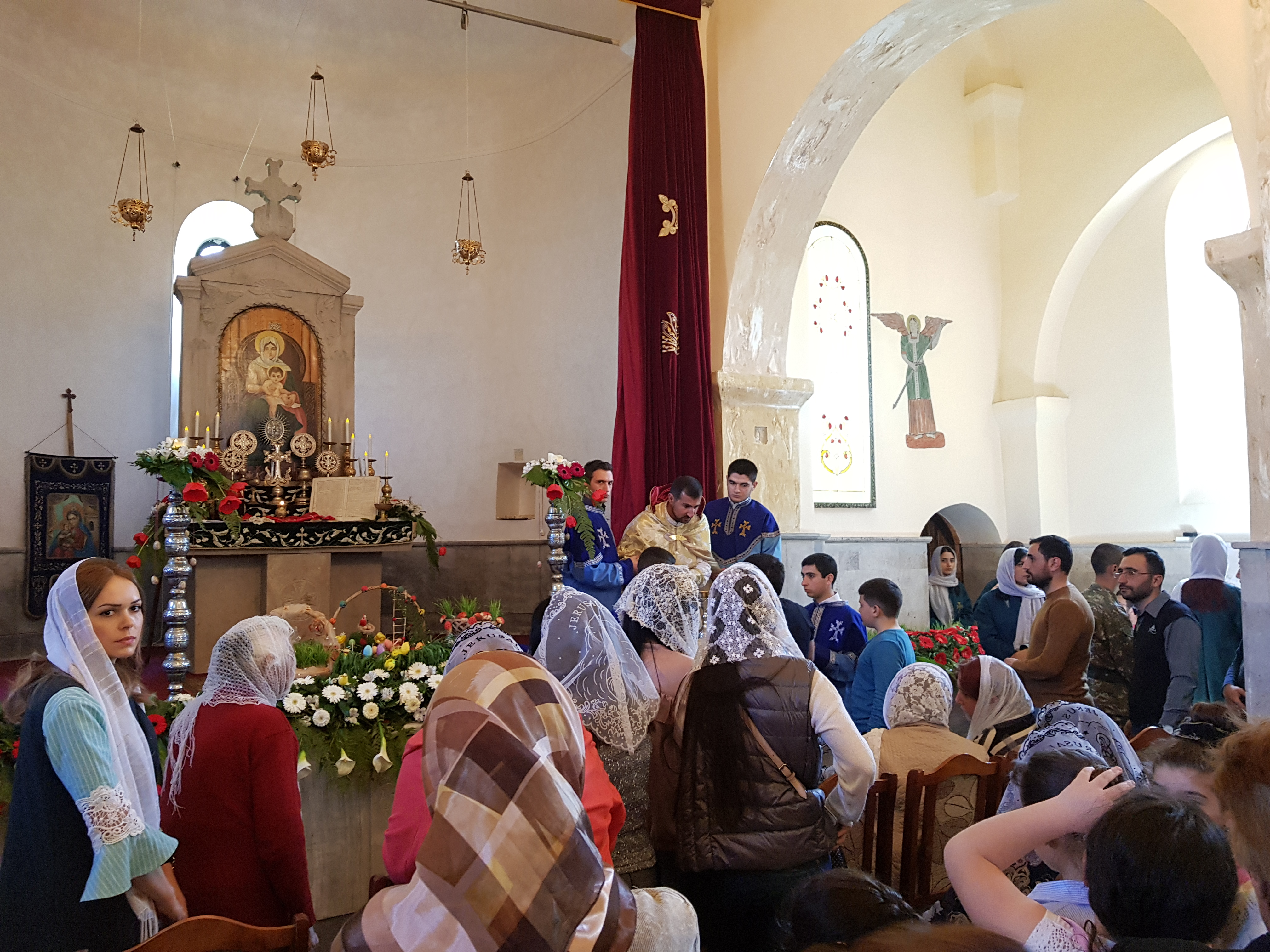 Easter in Armenia, St. Hakob Church, Ararat